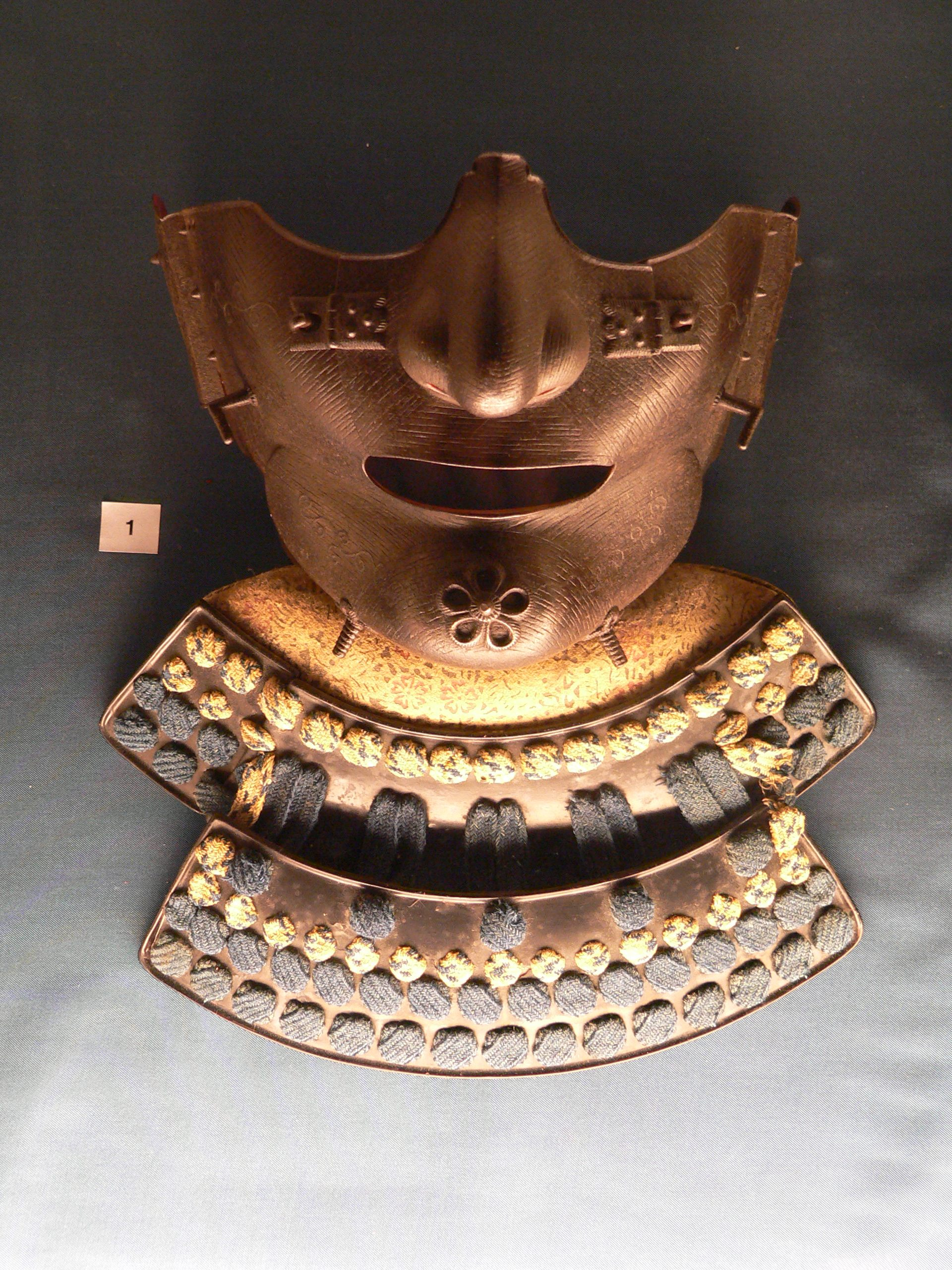 Japanese armour mask